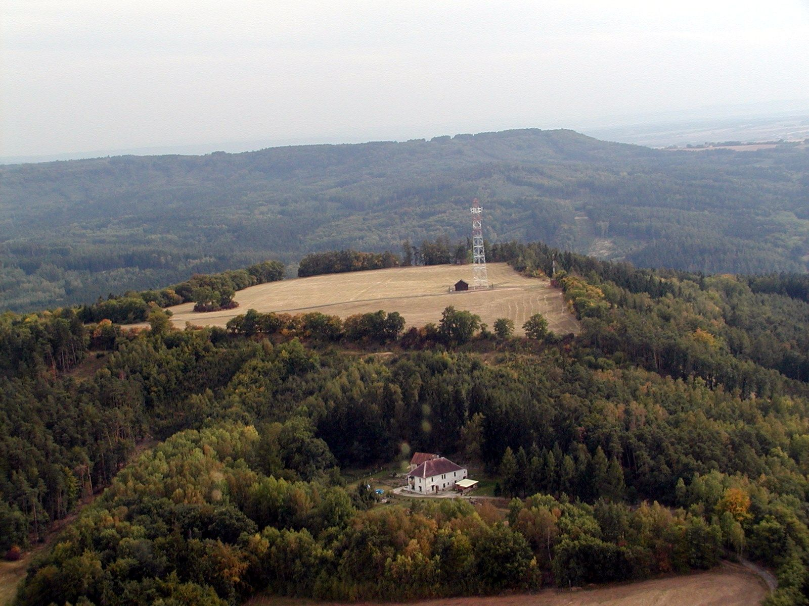 Fort hill Výrov from the airplain